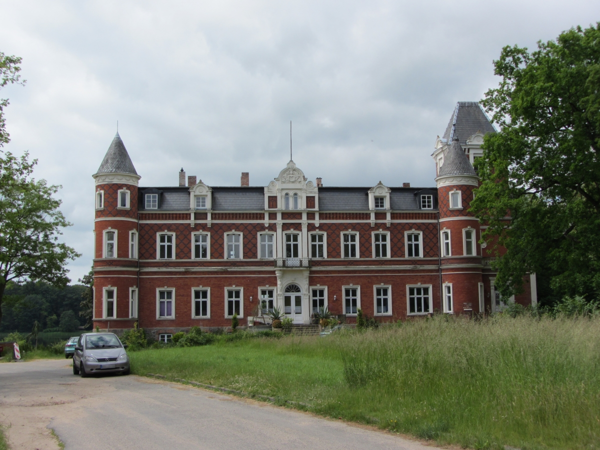 Manor house in Klein Trebbow, district Nordwestmecklenburg, Mecklenburg-Vorpommern, Germany